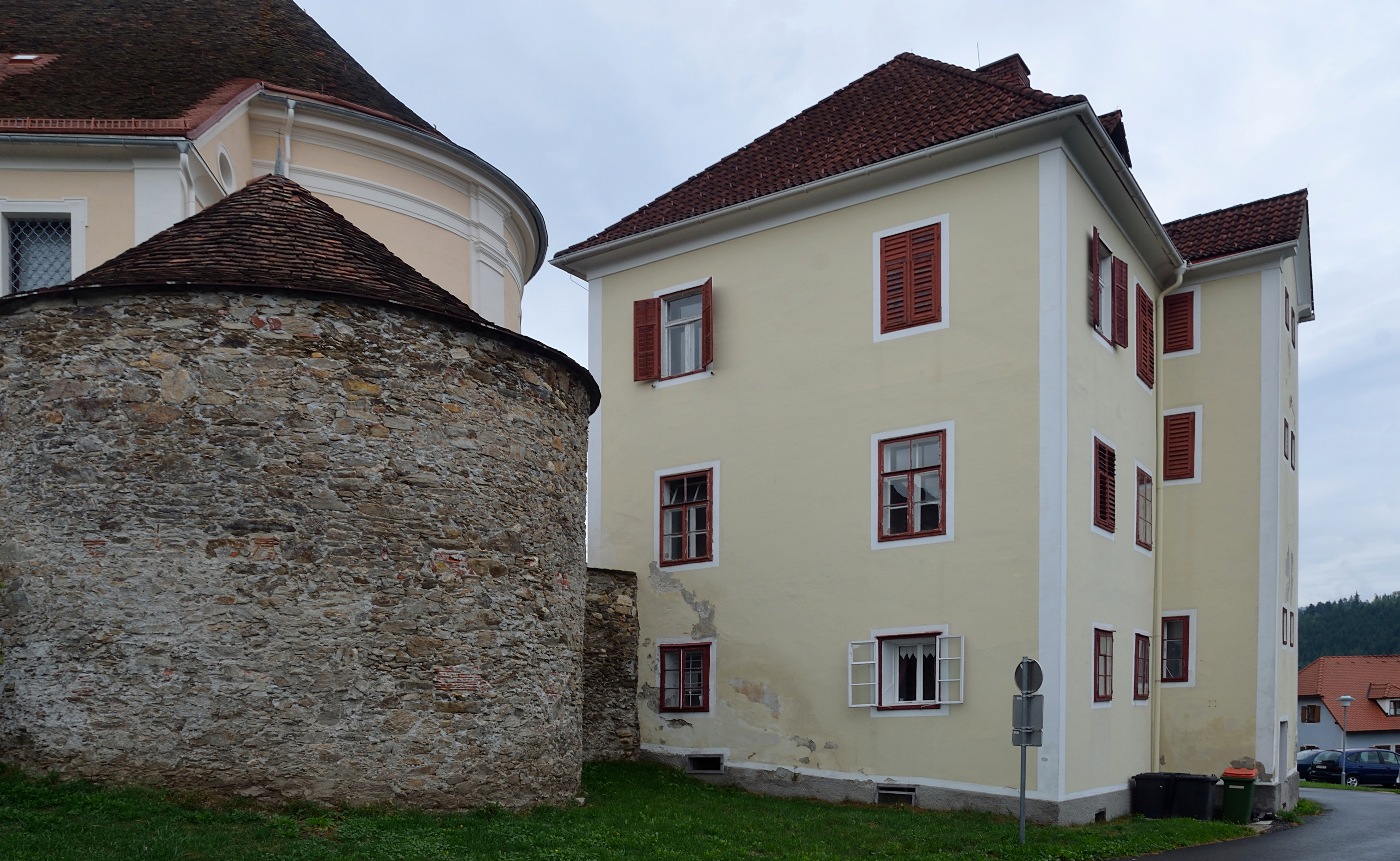 Old primary school at Birkfeld, Styria. To the left the chapel.